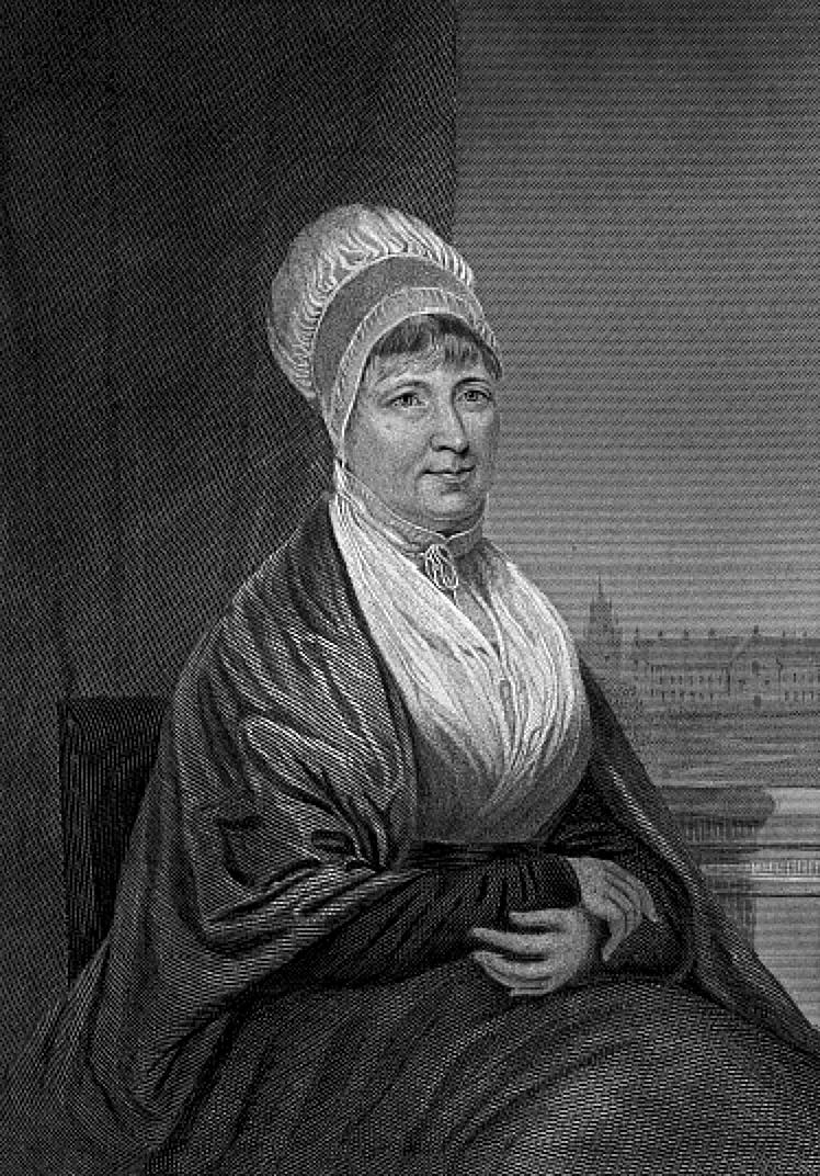 Portrait of Elizabeth Fry Gurney, 1780-1845